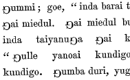 A piece of gurre kamilaroi (1856) by William Ridley (1819–1878). Demonstrates the use of a rotated capital G as a substitute for eng.